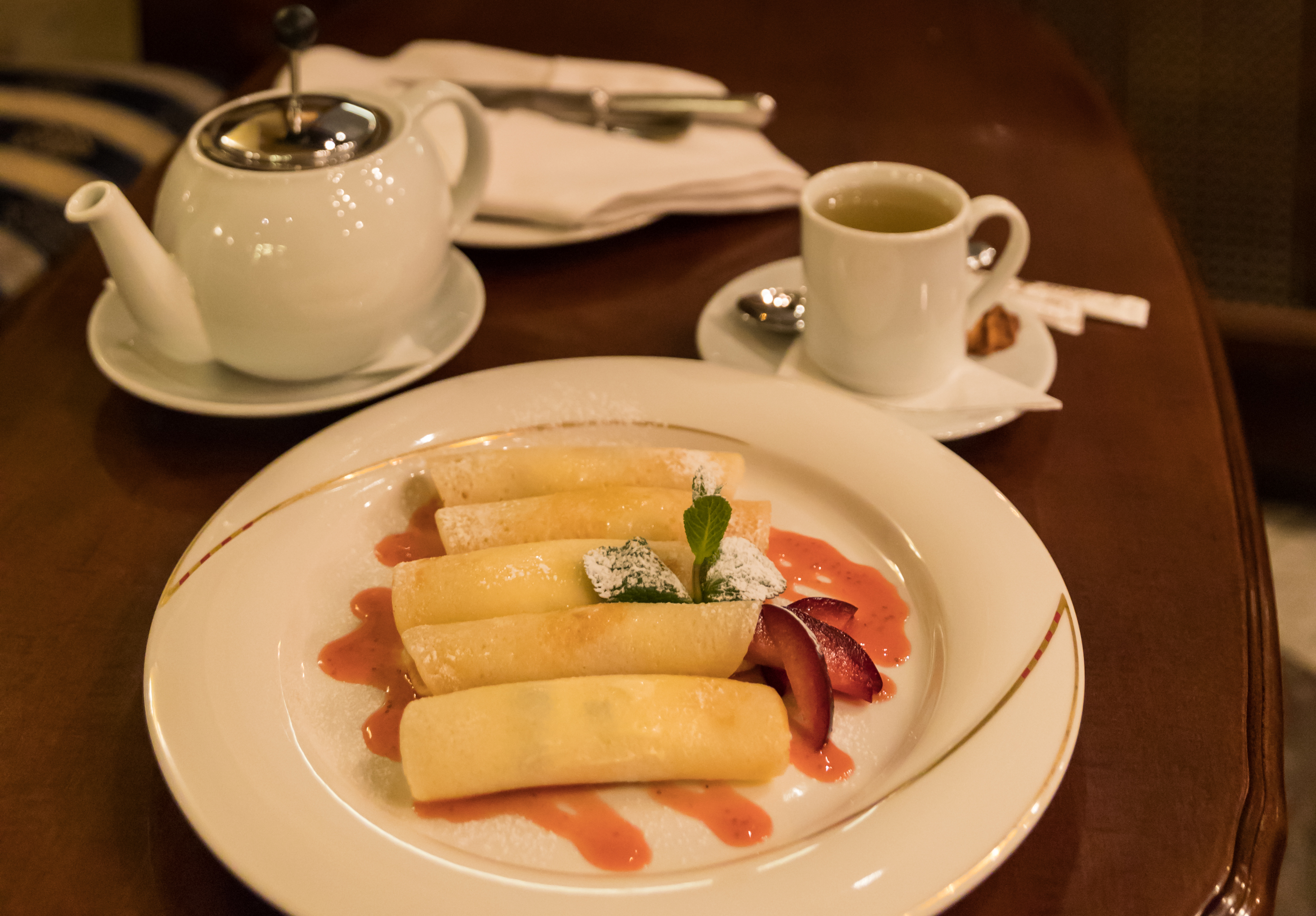 Russian blini with strawberries